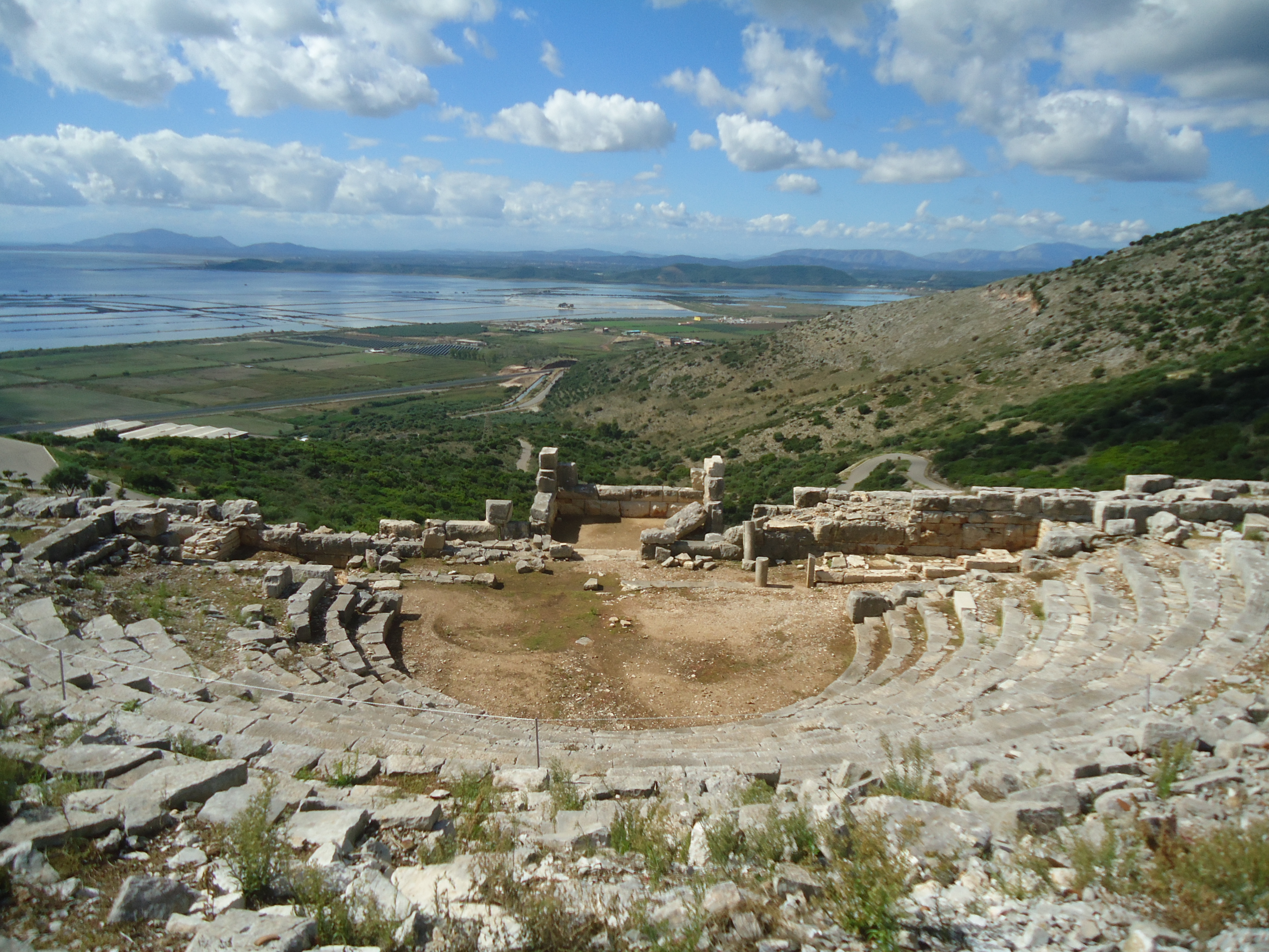 Pleuron (Plevrona) ancient theater. Mesologi lagoon on the background.